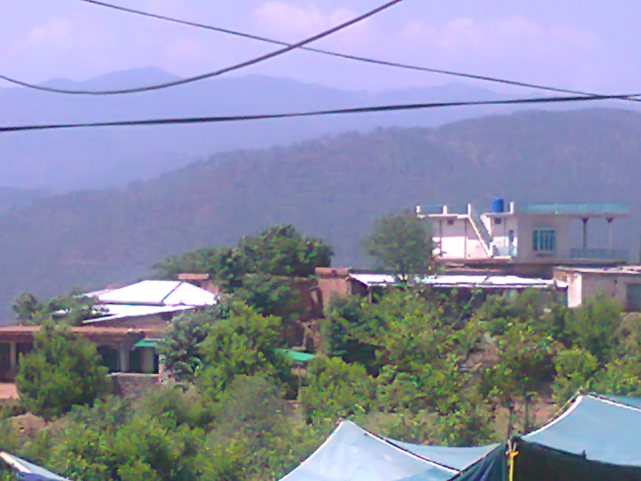 This file just shows the mohallah of village Basand, Punjab, Pakistan